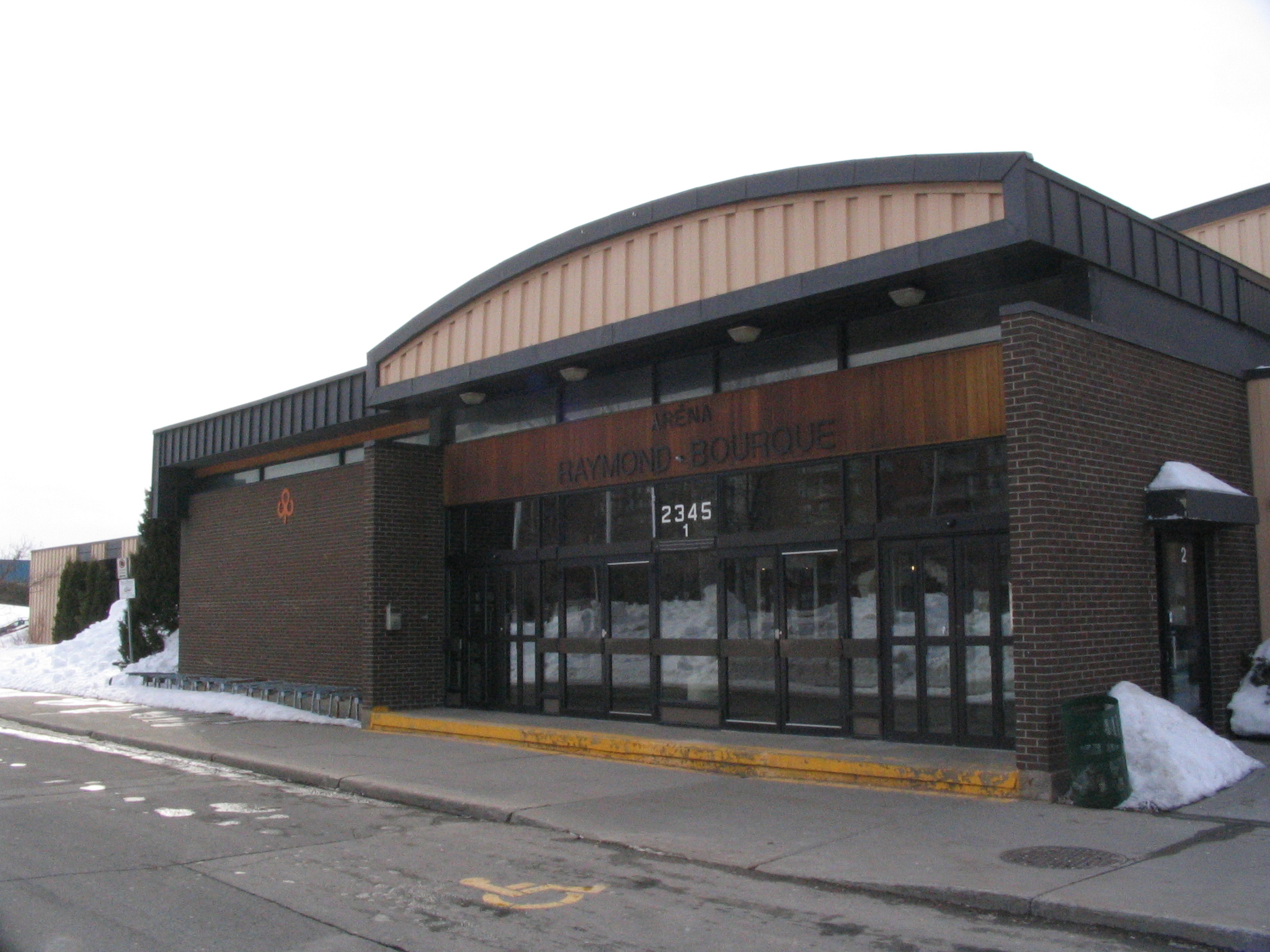 The Ray Bourque Arena is located in the borough of Saint-Laurent in Montreal, Quebec, Canada.